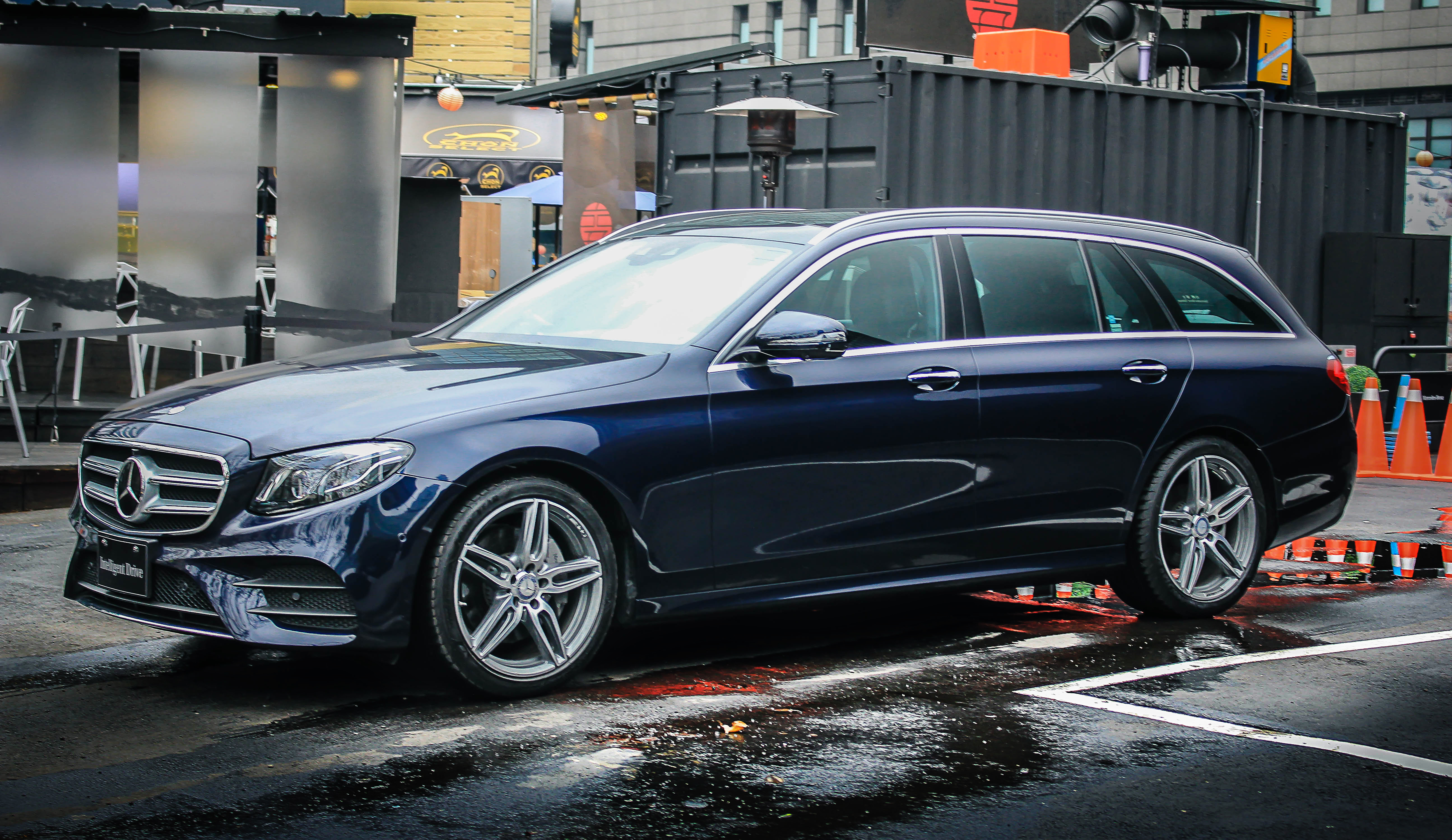 Mercedes-Benz E-Class (W213) Estate, 2017